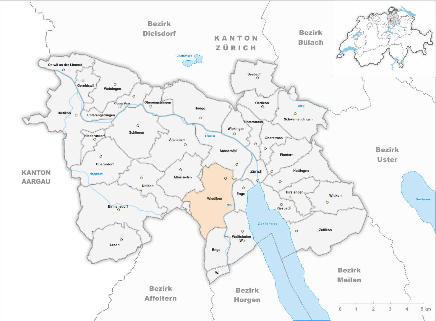 Municipality Wiedikon